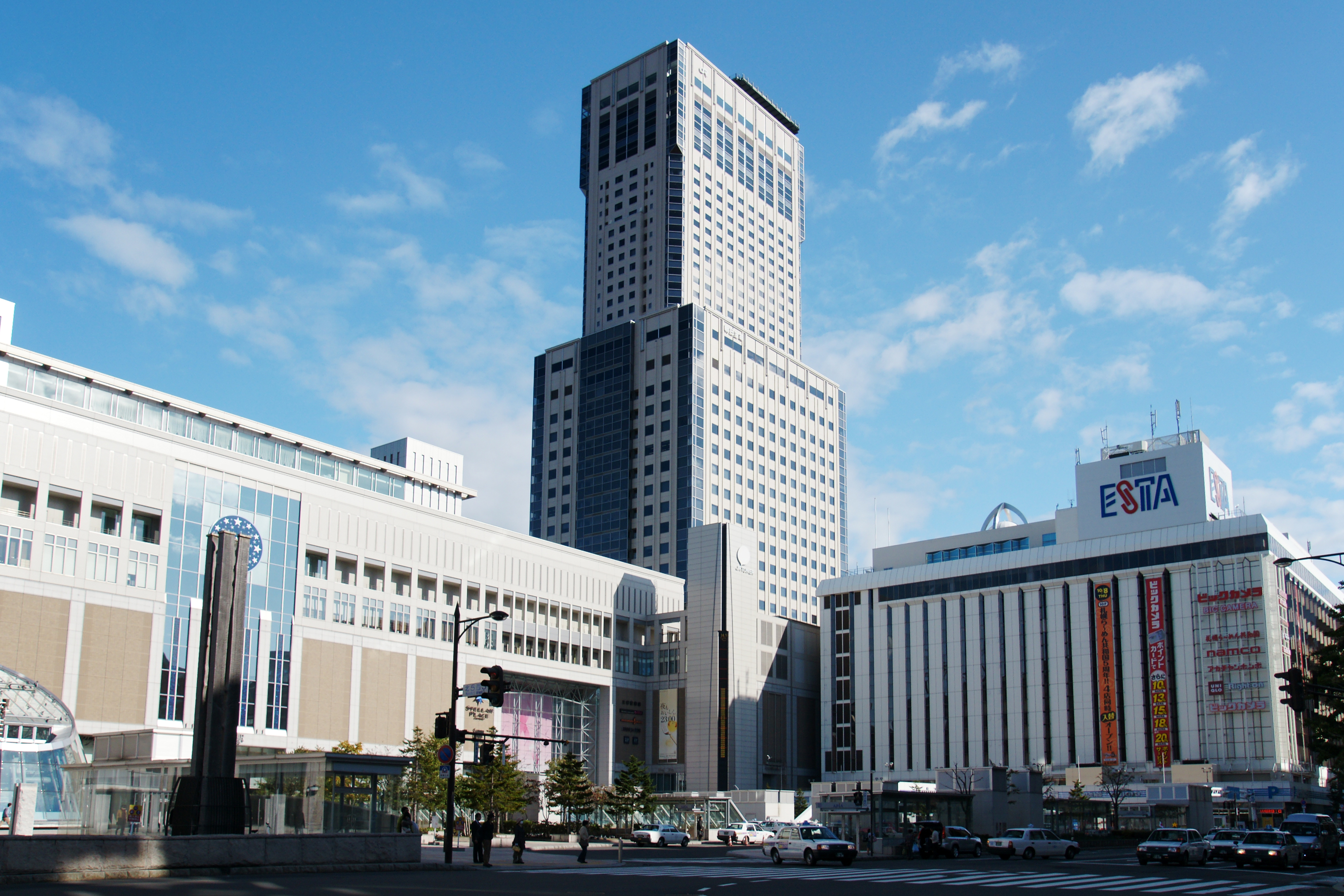 Sapporo Station in Sapporo, Hokkaido prefecture, Japan